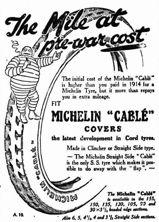 Michelin, advertising, Australia, 1922